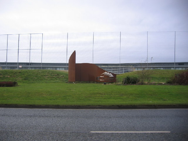 Lakes college sign. Sculpture to match the steel working history of the area.